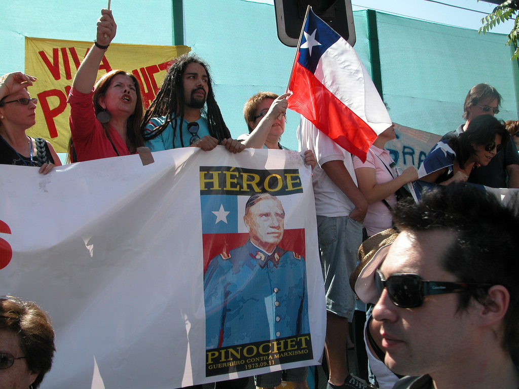 Supporters of Augusto Pinochet next to the Military Hospital, one day before his death.